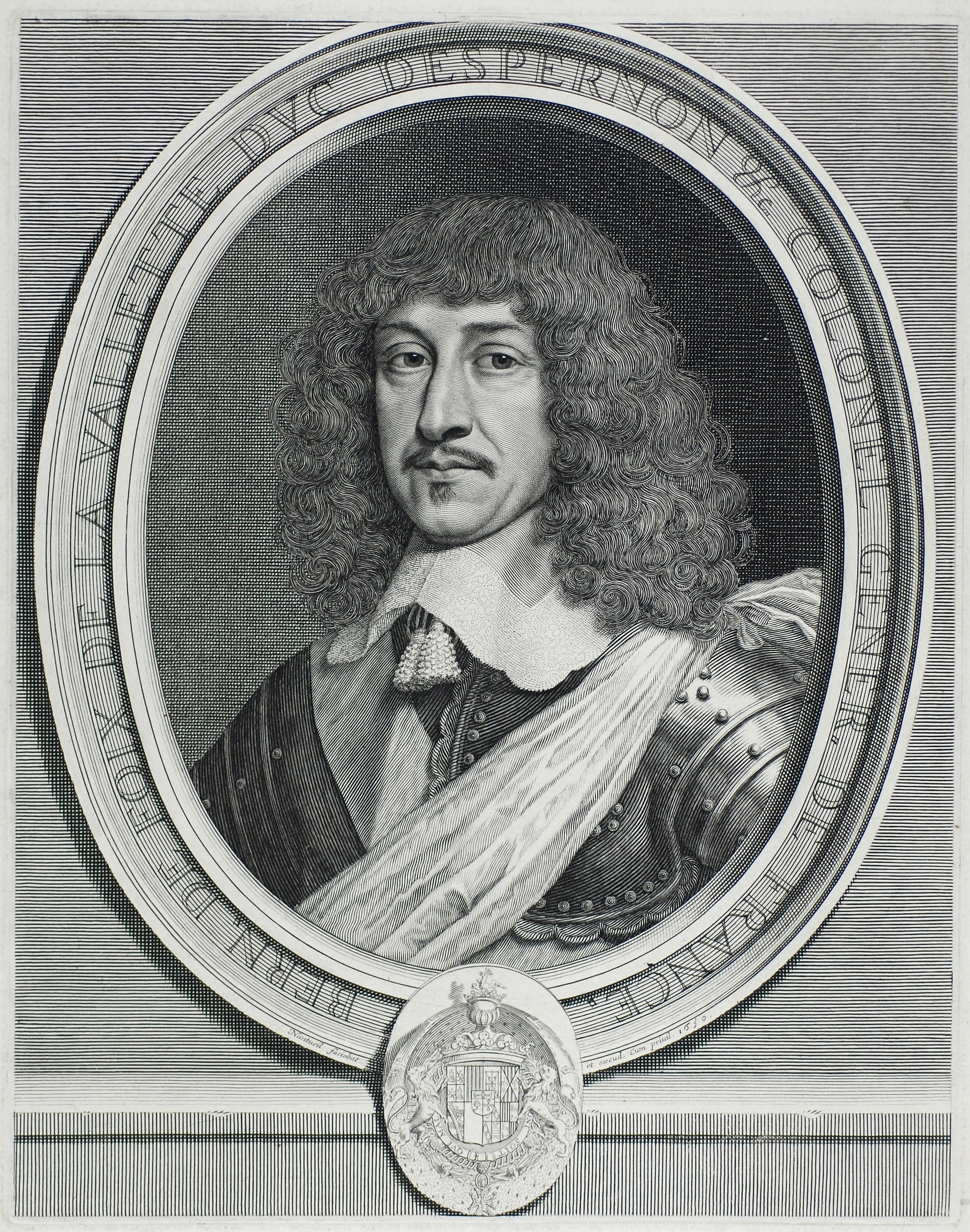 Engraved portrait of Bernard de Nogaret de La Valette